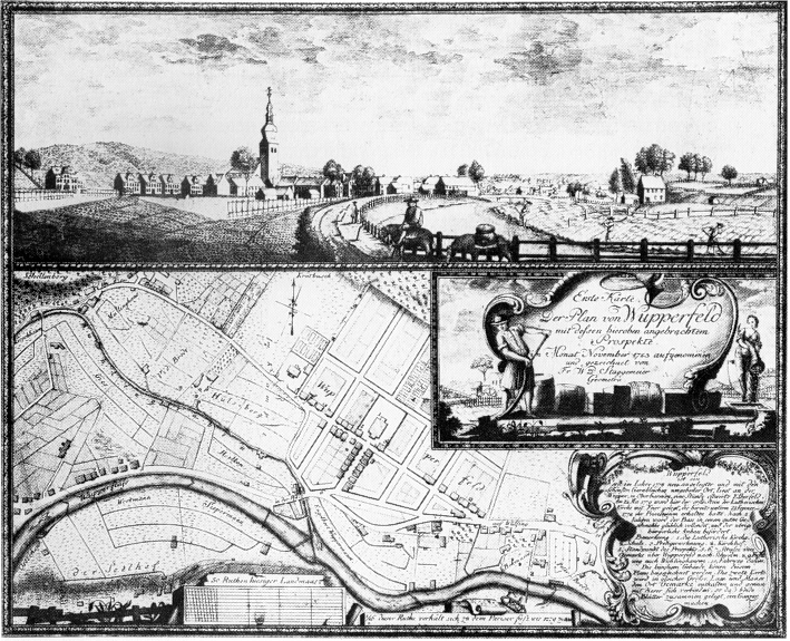 Wupperfeld, first map of 1783